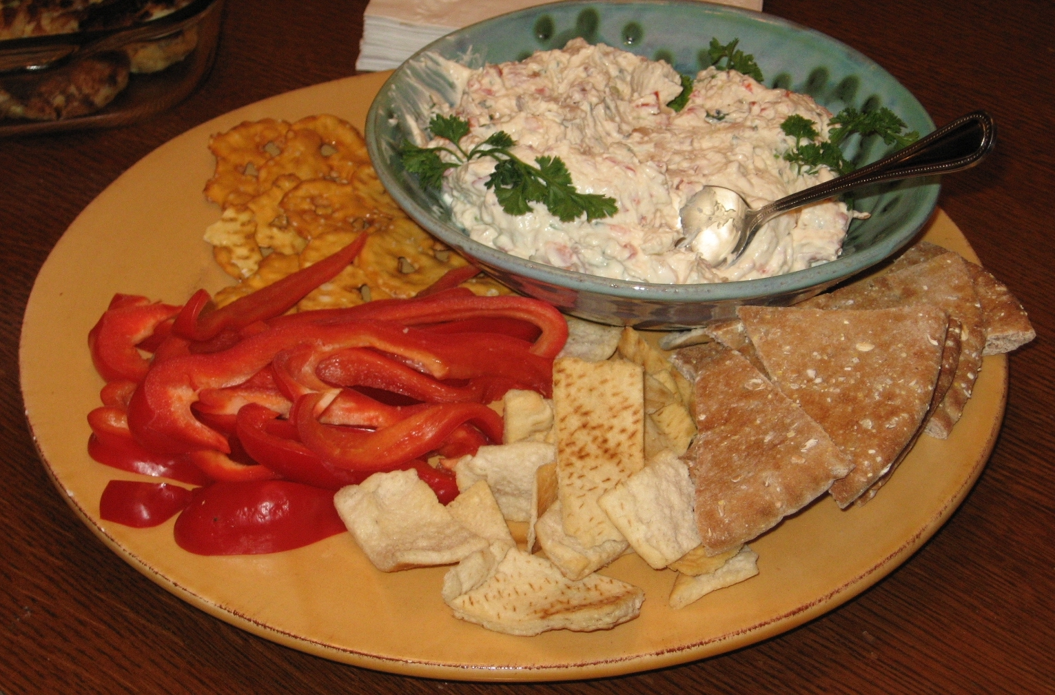 Michelle's Chunky Clam and Bacon Dip from The Gourmet Cookbook